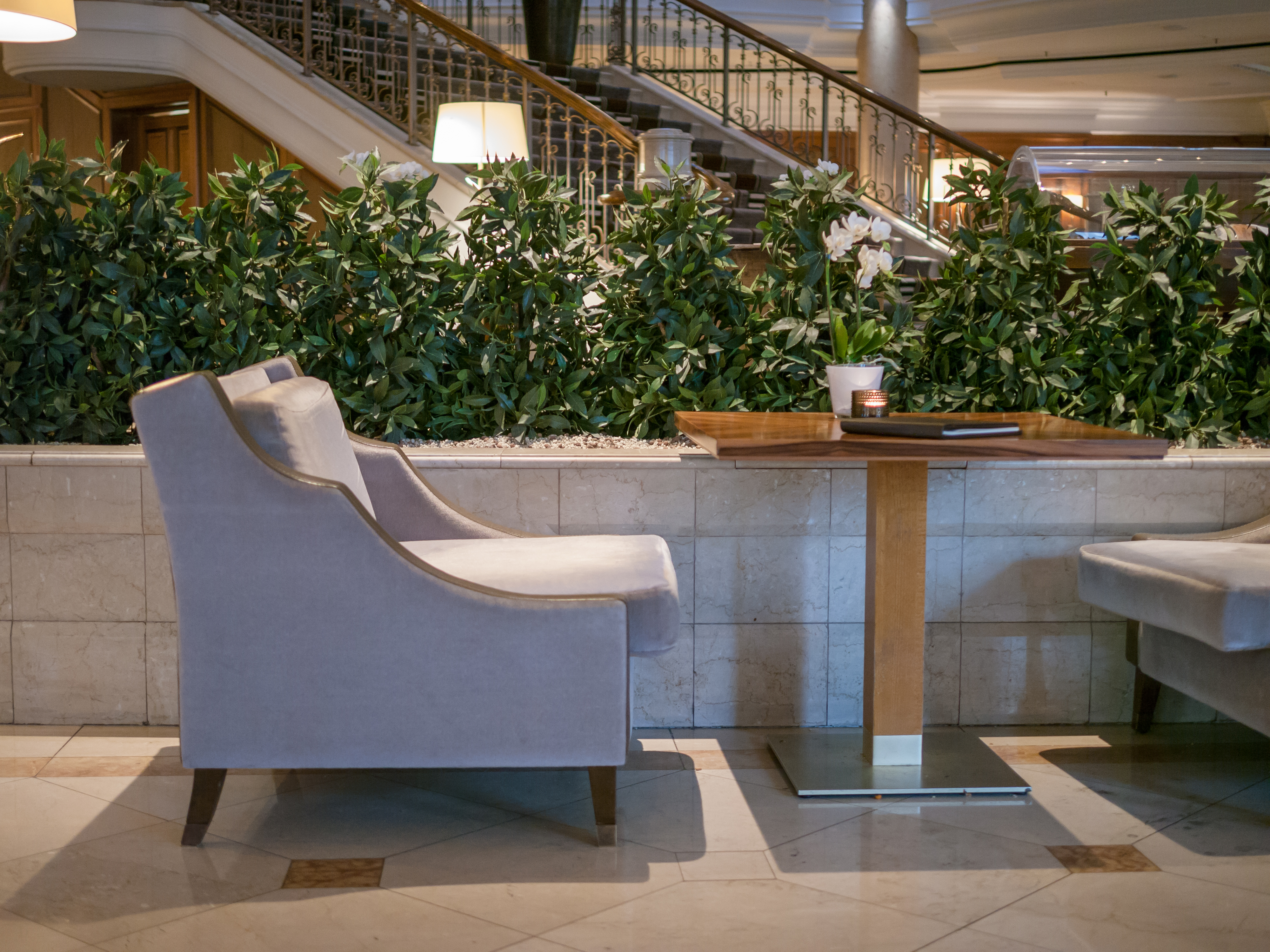 Westin Grand Berlin